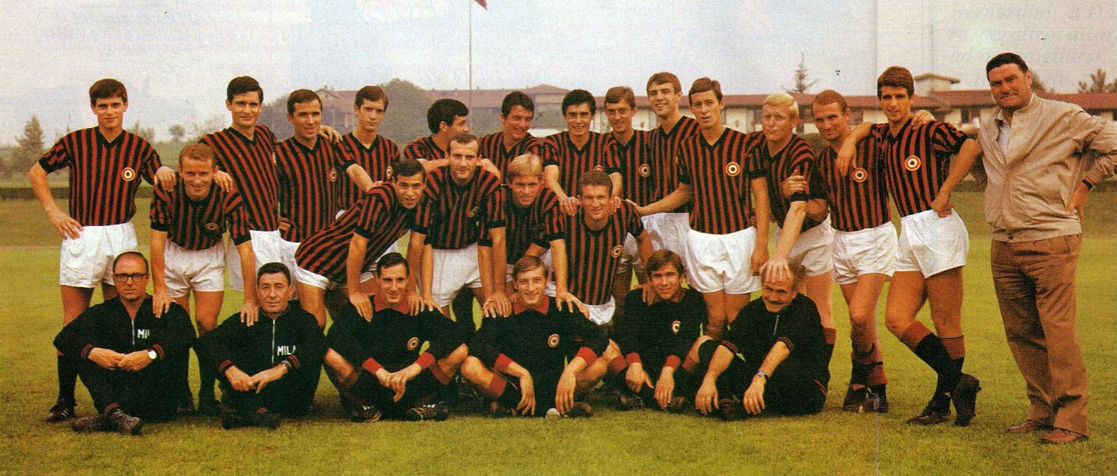 The first-team squad of A.C. Milan in the 1967–68 season, posing inside the Milanello Sports Centre in Carnago (Varese, Italy).